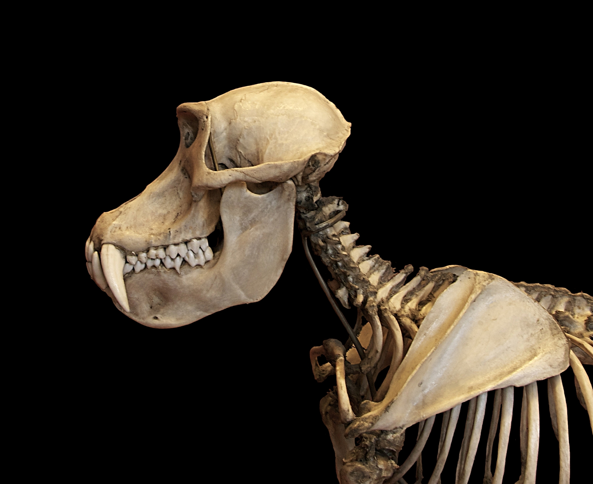 Mandrillus sphinx. Mandrill [N.B. more likely Theropithecus gelada. Gelada]. Skeleton from skull to shoulder blade. Galeries of paleontology and compared anatomy, National Museum of Natural History, Paris